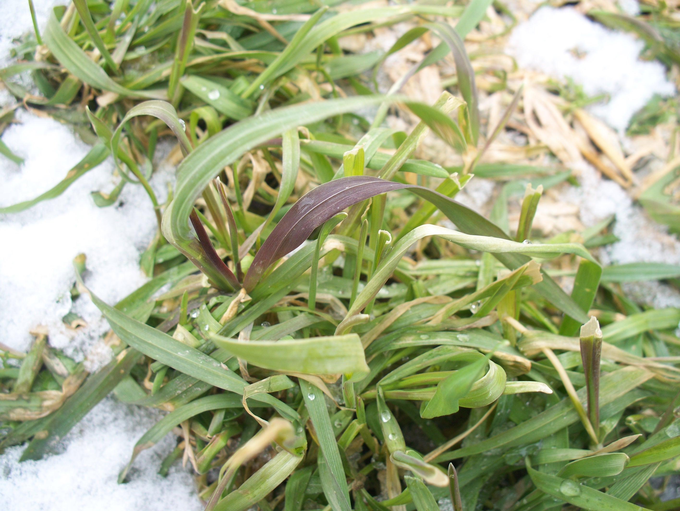 Google translation: Phosphorus deficiency symptoms on rye leaves